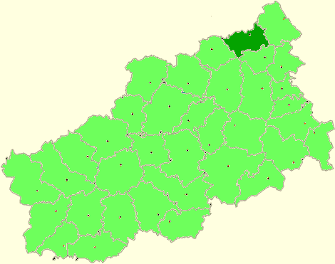 Tver Oblast map by Al Silonov